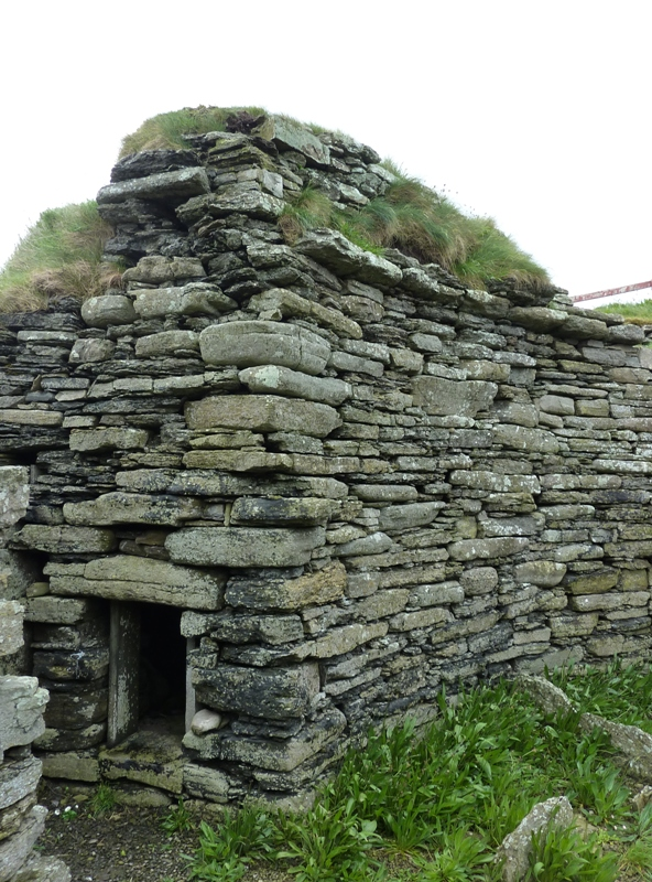 Burroughston Broch, Shapinsay, Orkney, Scotland. Guard cell, looking south.